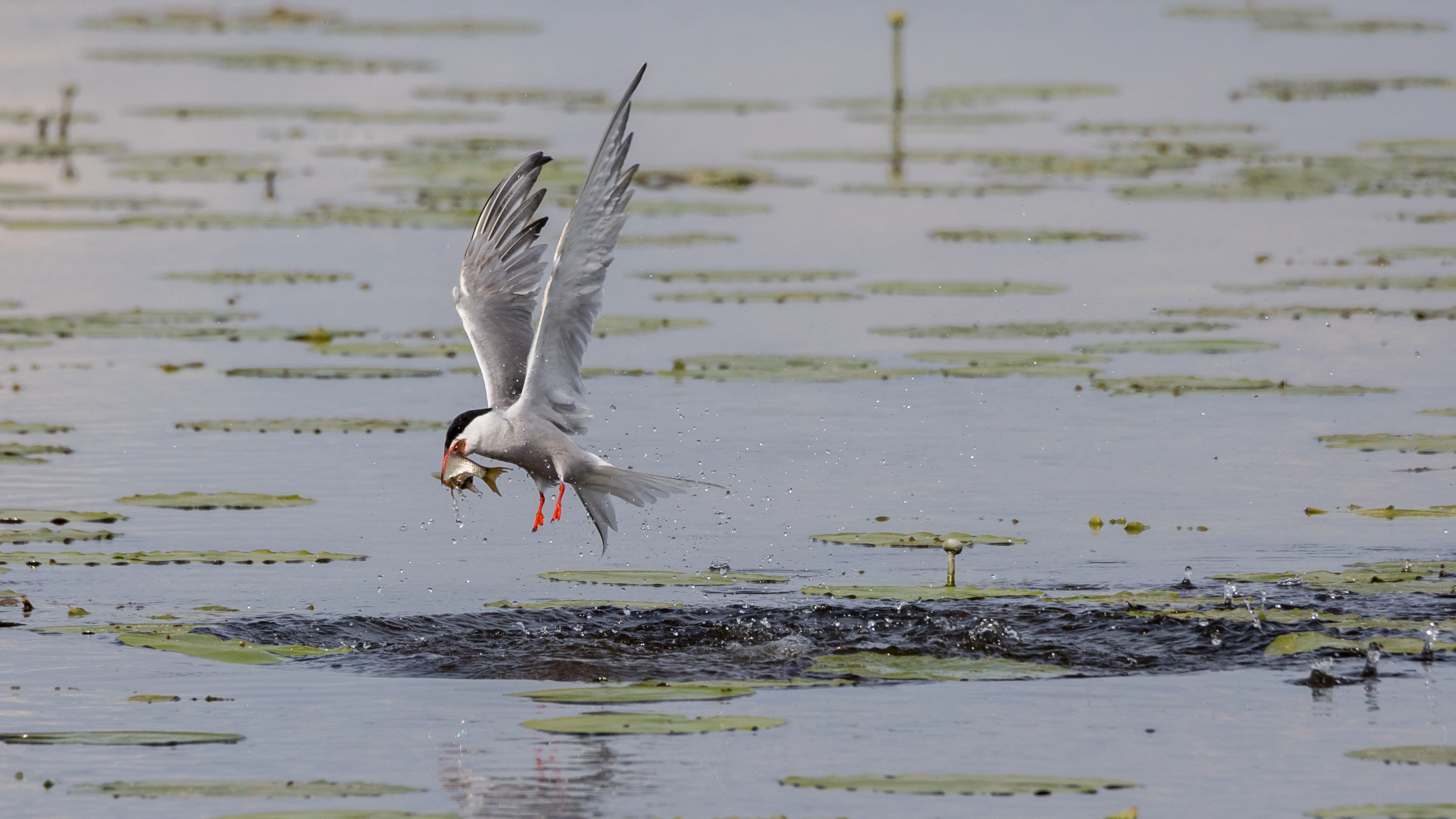 The European reserve "Federsee" (NSG 4.019) with its bird sanctuary (DE-7923-401) provides suitable breeding conditions for several endangered bird species. Up to 20 pairs of the Common tern (Sterna hirundo) are found here in summer to breed on artificial rafts and to hunt for fish in the clear waters of the lake. Merely the extended growth of spatterdock (Nuphar lutea) makes it somewhat difficult for the birds to spot their prey. This photo shows a bird after its successful hunt for a Common rudd (Scardinius erythrophthalmus).